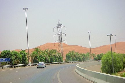 Author's own picture. A highway passing through sand dunes.